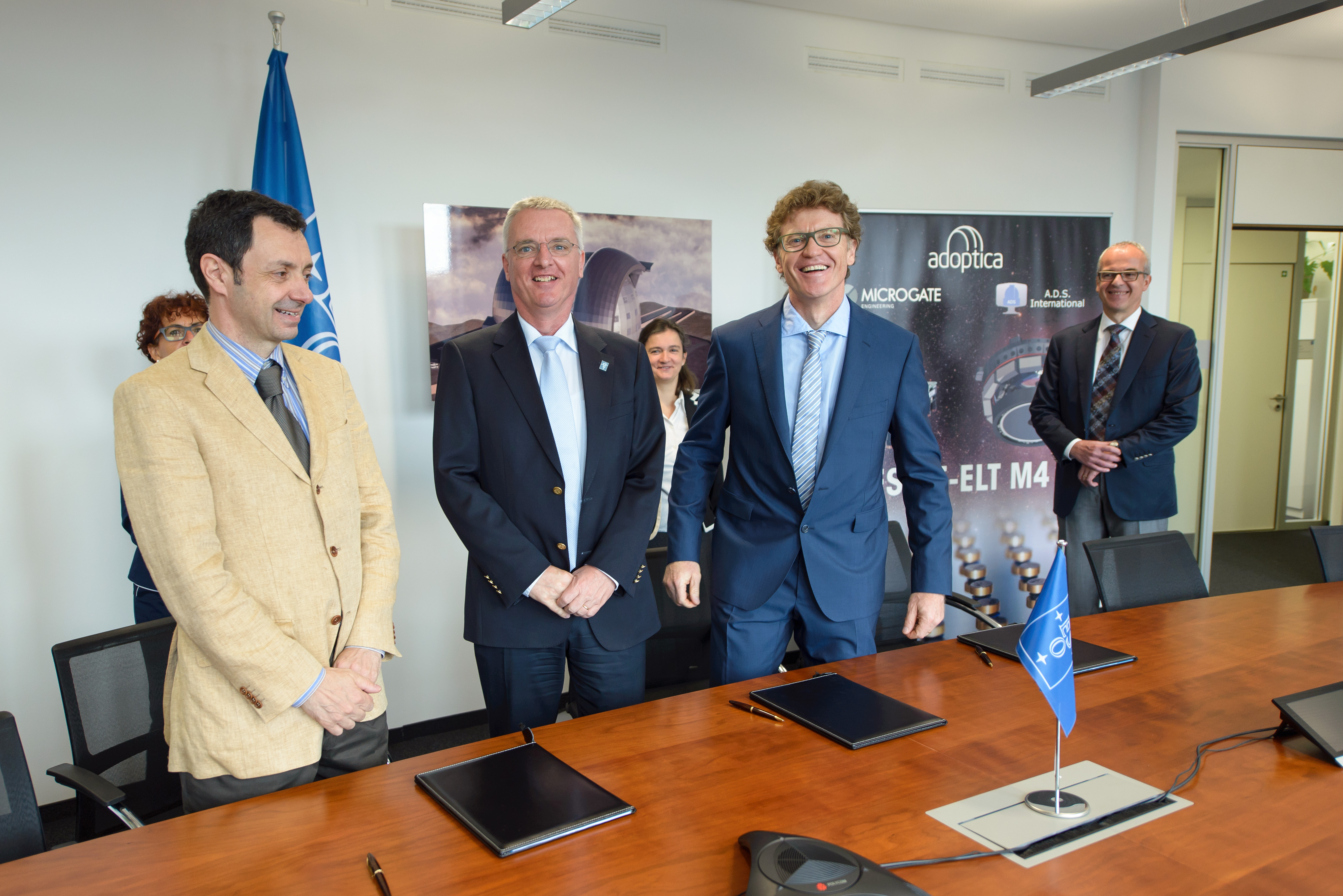 ESO has signed a contract with the AdOptica consortium in Italy — ADS International and Microgate, partnered with INAF (Istituto Nazionale di Astrofisica) as subcontractors — for the final design and construction of the very challenging adaptive unit for the fourth mirror (M4) of the European Extremely Large Telescope (E-ELT). This mirror system will surpass any adaptive mirror ever made for a telescope and be the largest of its kind. The contract was signed by representatives of AdOptica and ESO at a ceremony at ESO Headquarters on 19 June 2015.